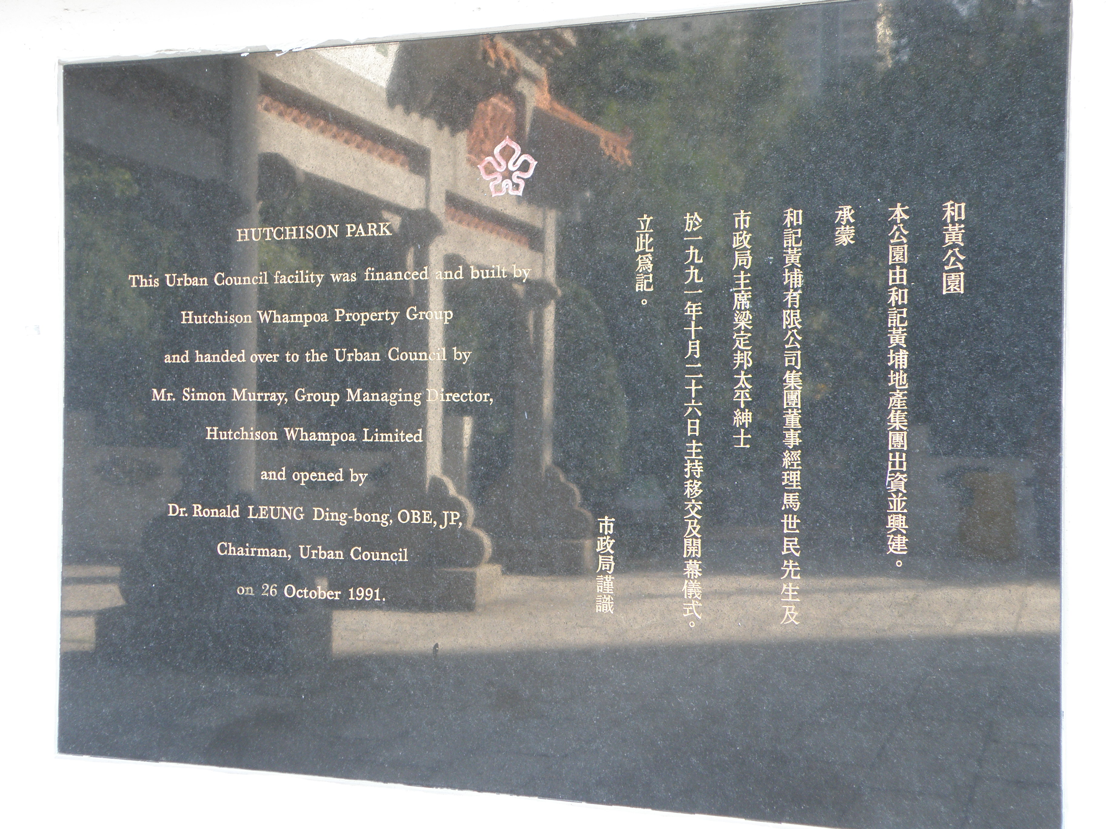 Hutchison Park in Whampoa, Hong Kong.